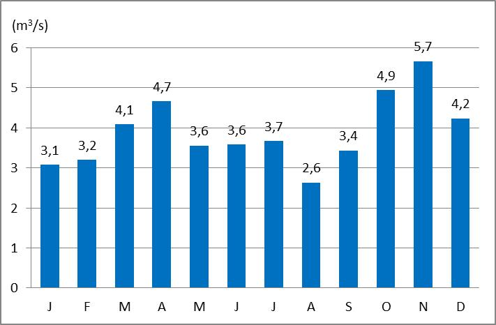 Average monthly discharges of Paka River at the gauging station Rečica in 1971–2000